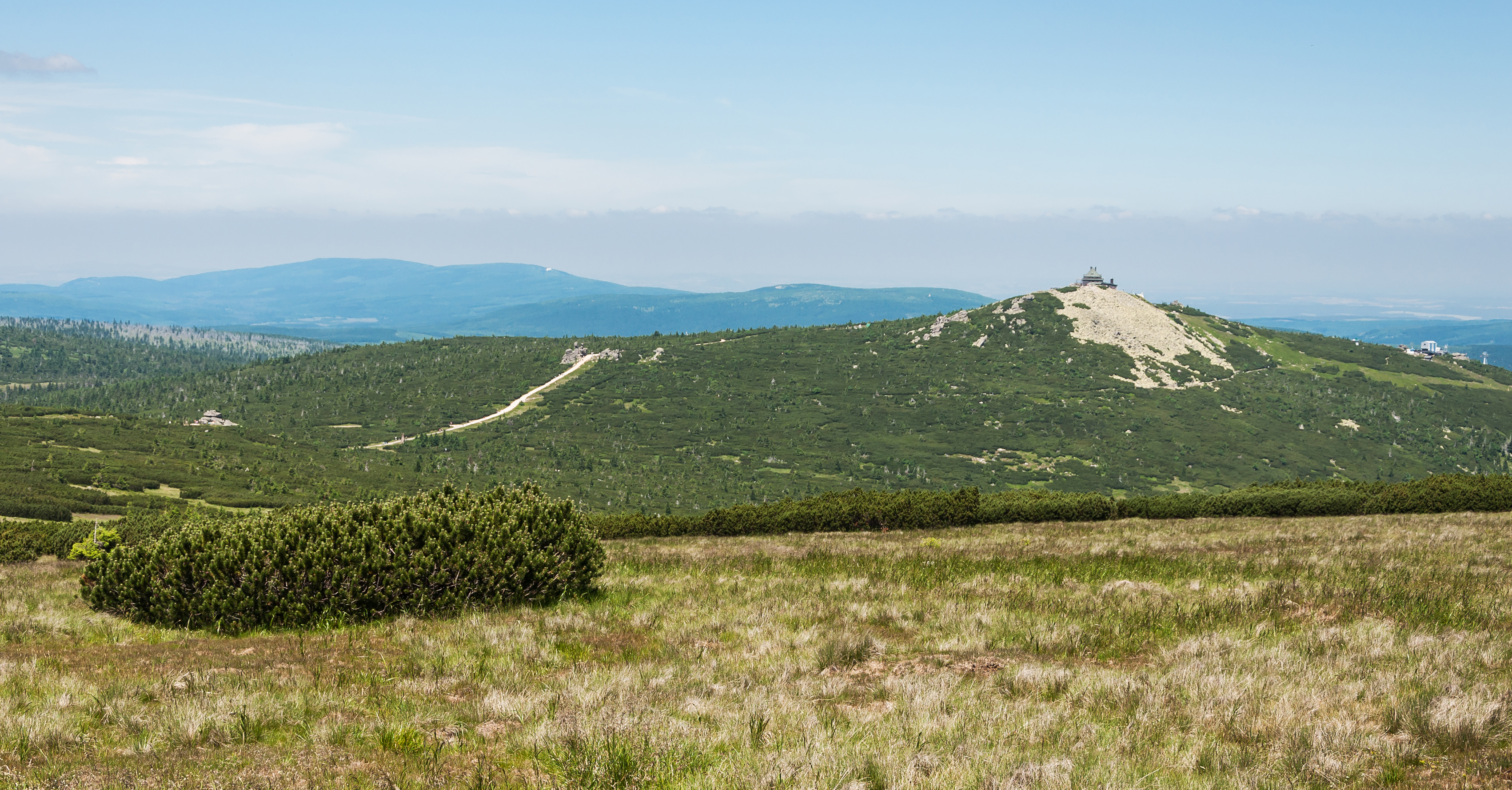 Graniczna Łąka i Szrenica, Karkonosze, Sudetes